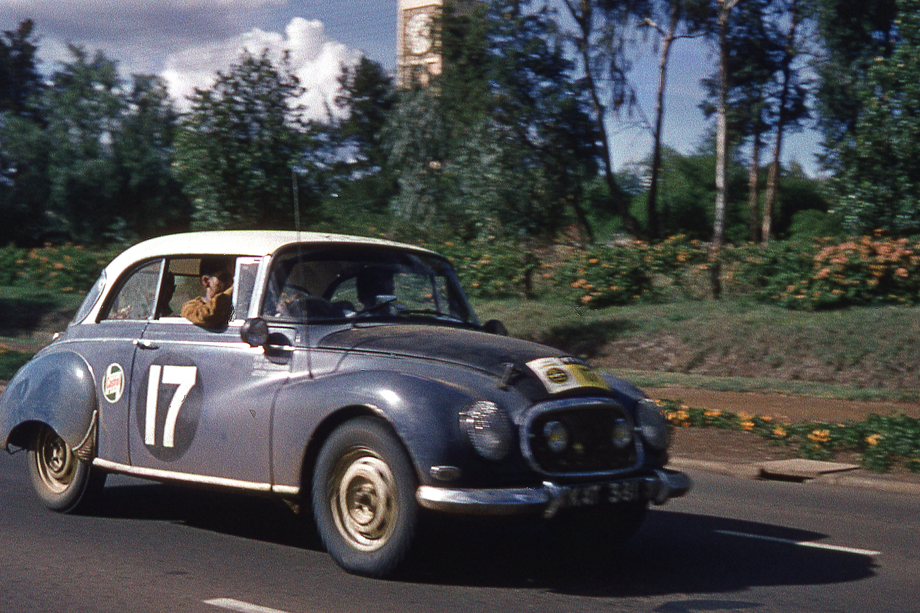 An Auto Union 1000 taking part in the 10th East African Safari Rally.